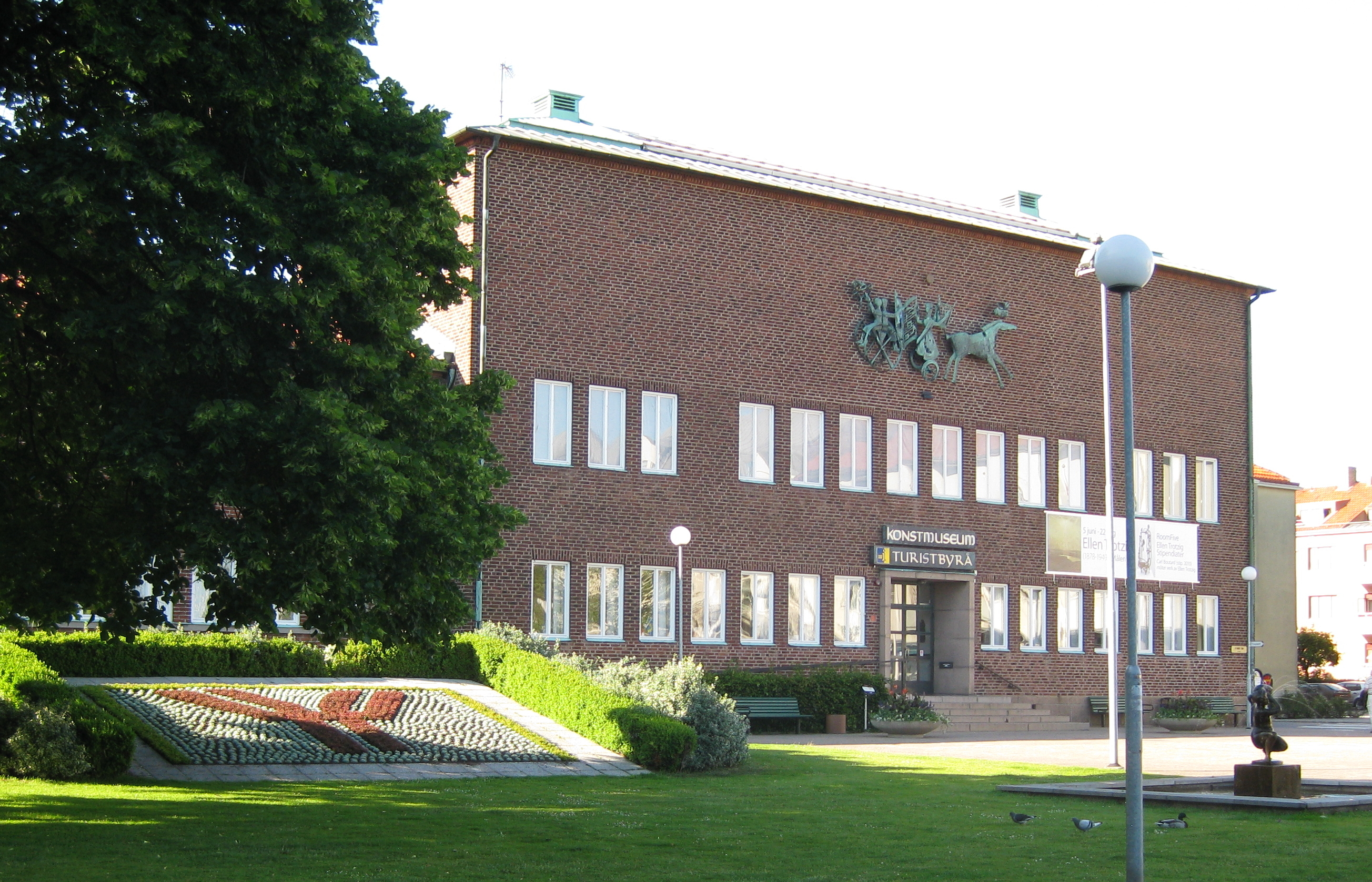 Ystad art museum